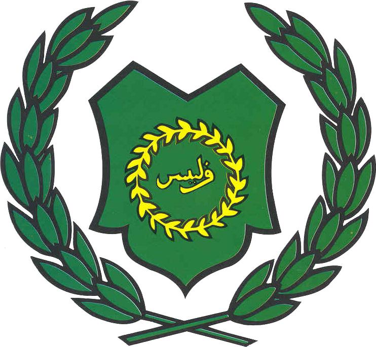 coat of arms of Perlis